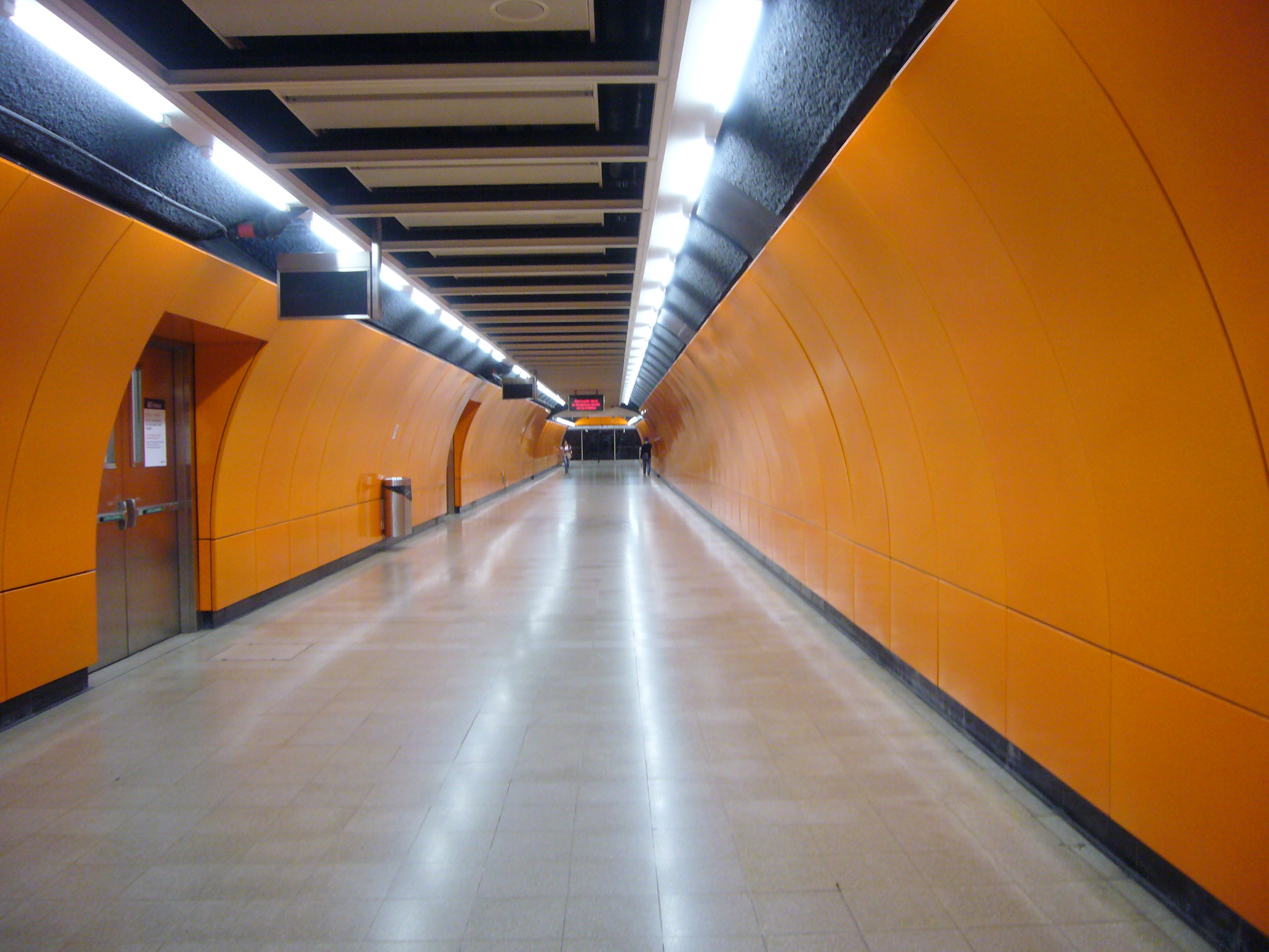 Long passageway between two platforms. North Point 08-03-07.